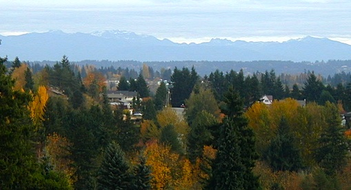 My (Dara Korra'ti/Dawnstar Graphics) photograph, taken 2006, of parts of Uplake Terrace and Northlake Terrace, in Kenmore, Washington, from the westernmost boundary of Kenmore, Washington, in Uplake Terrace.